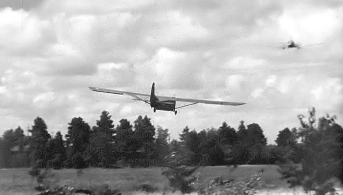 Laurinburg-Maxton Army Air Base CG-4 Glider taking off after snatch pickup